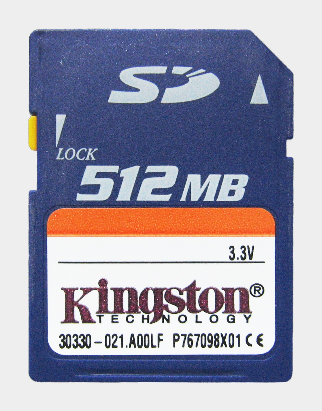 Kingston 512MB Secure Digital Card.